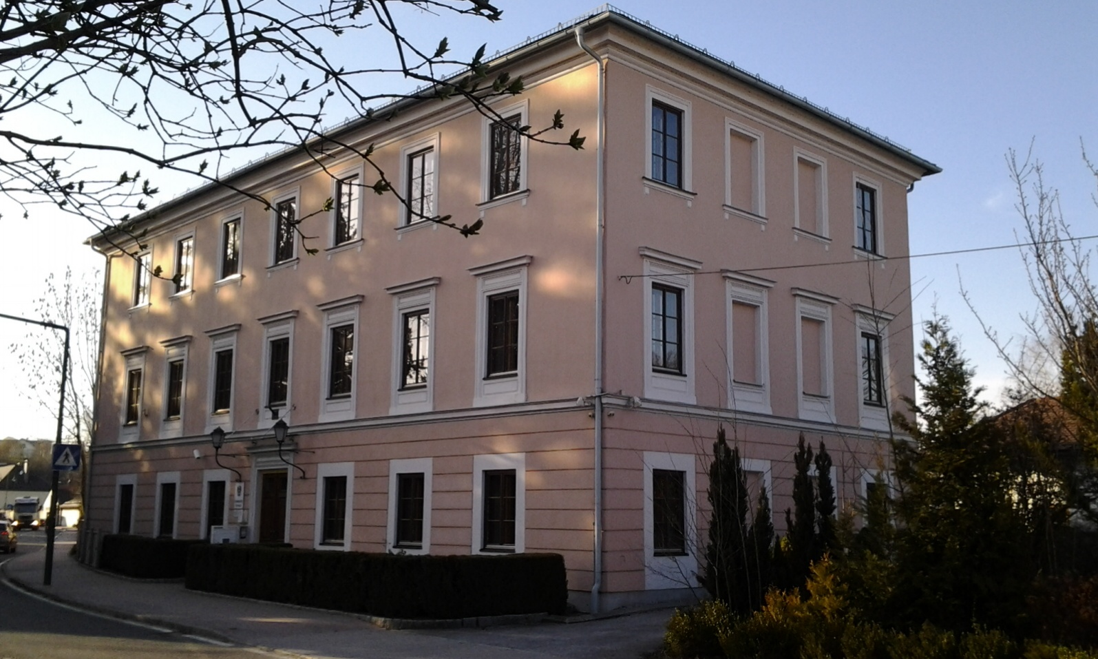 district court of Oberndorf bei Salzburg, Salzburg state, Austria